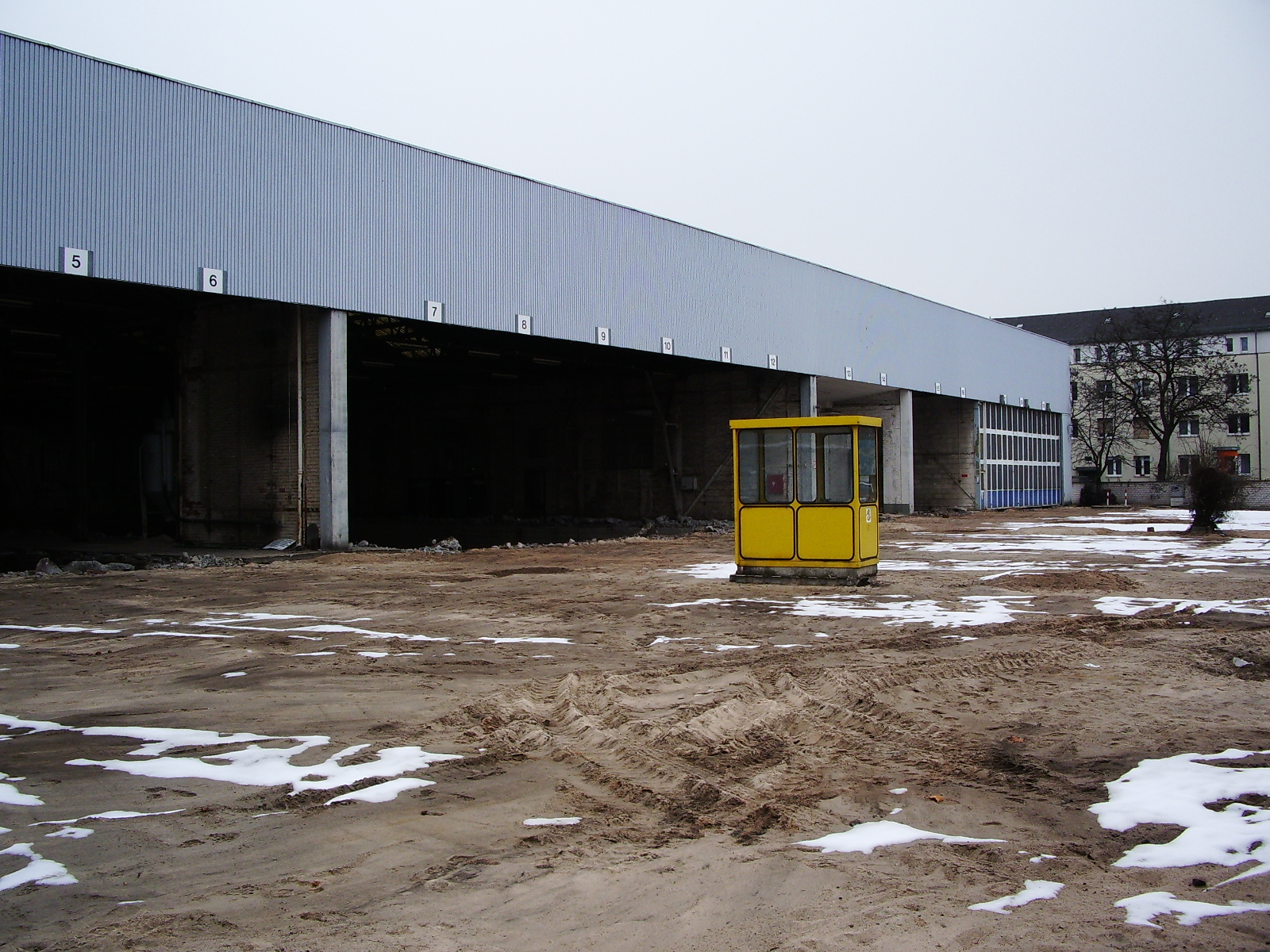 Former Tram depot at Hedderichstraße, Frankfurt am Main, March 08 2006.